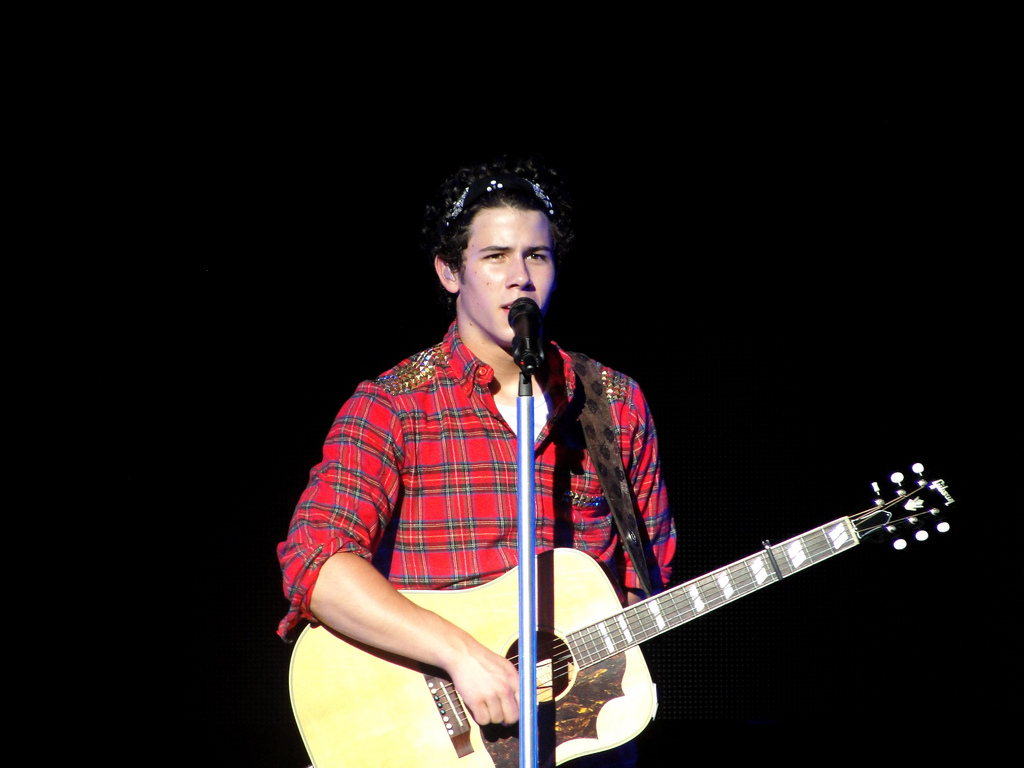 Jonas Brothers Live In Concert and The Cast of Camp Rock 2, September 2nd, 2010.